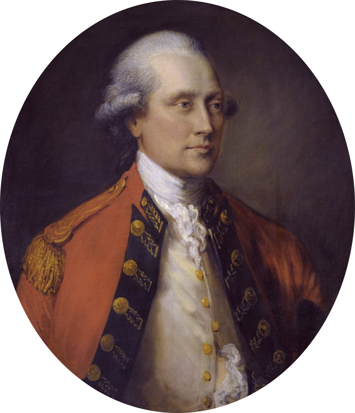 Portrait of John Campbell, 5th Duke of Argyll (1723-1806) - partial view of painting